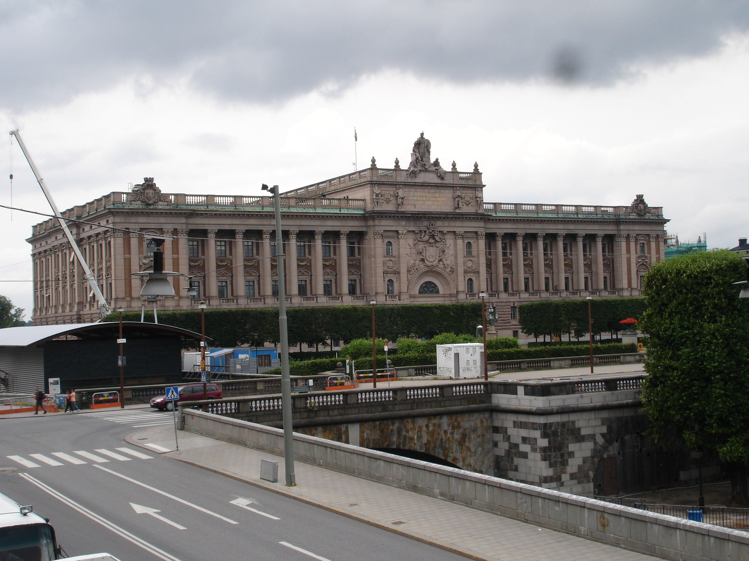 The Parliament of Sweden, Stockholm, Sweden